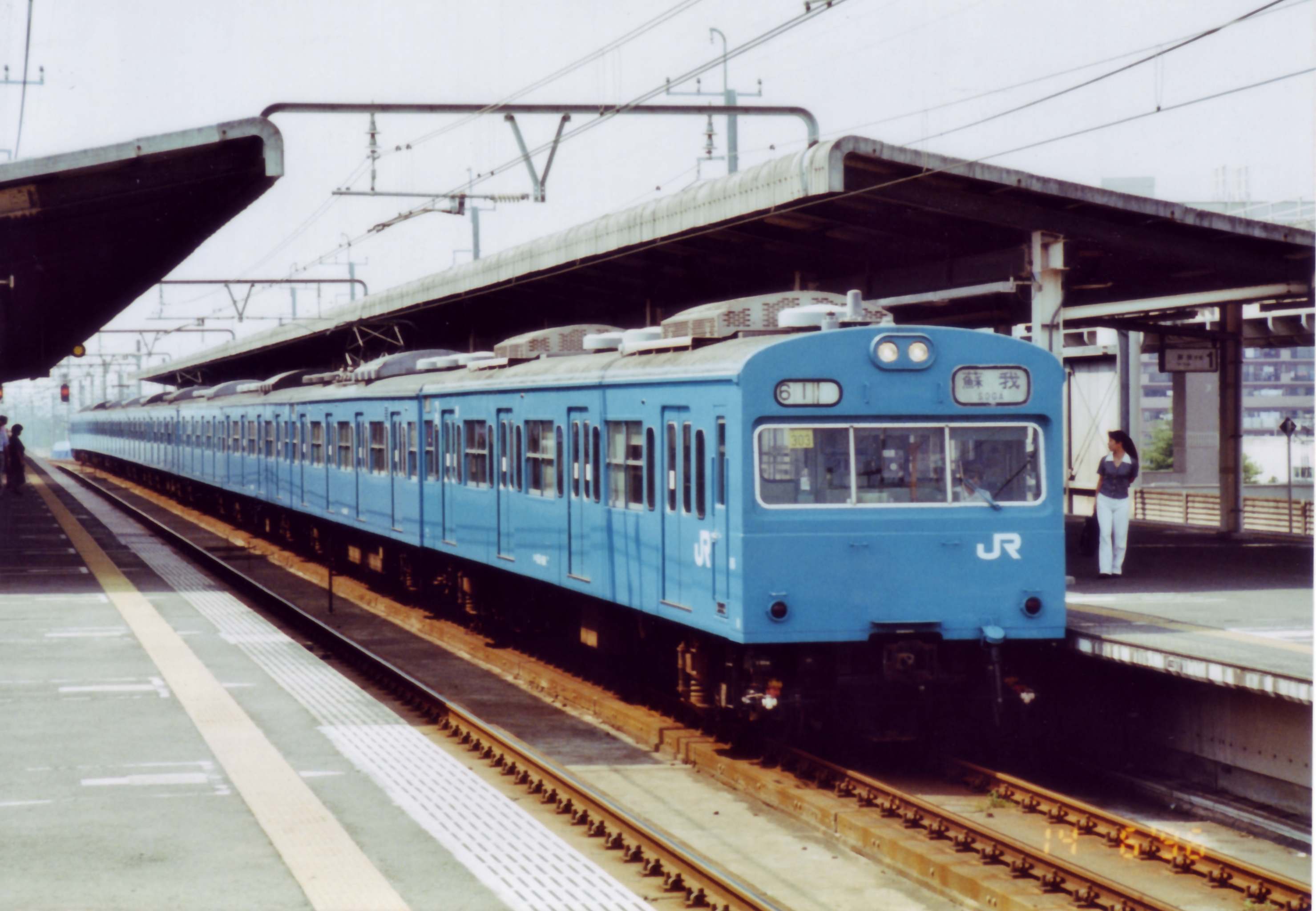 JR East 103 series EMU set 303 at Chiba-Minato Station on the Keiyo Line